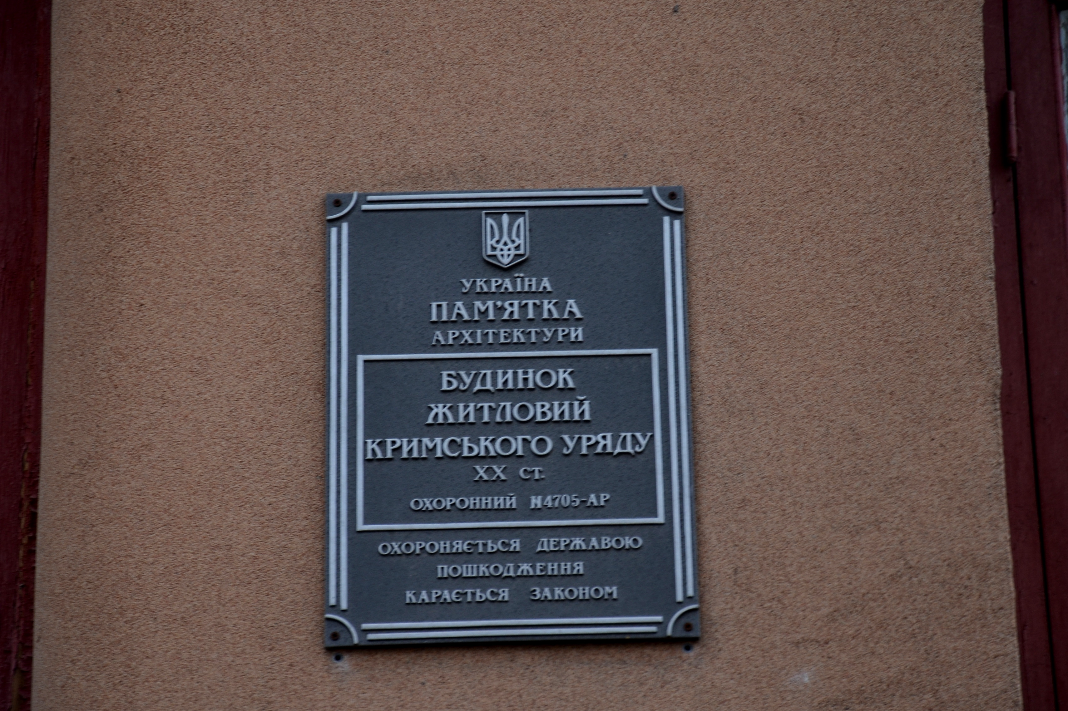 Residential building of the Crimean government, Simferopol, 1934